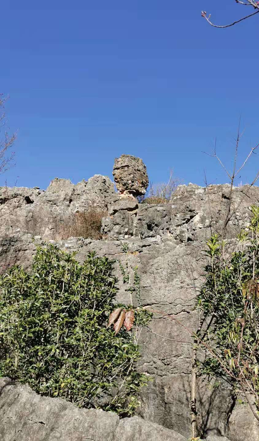 Two-faced god of cliff, in Shilin, Yunnan Province, Chine.